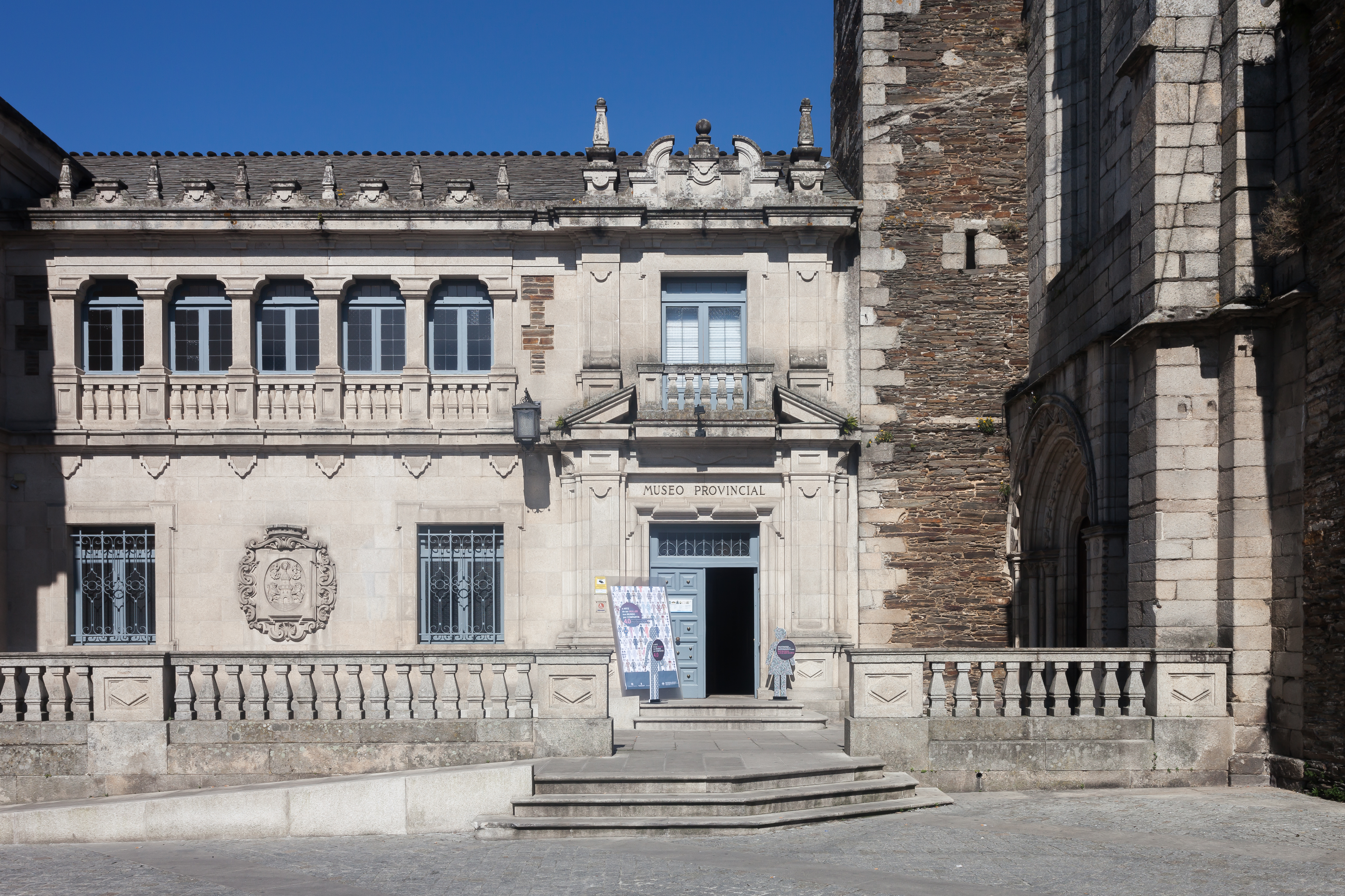 Provincial Museum of Lugo, Galicia, SpainGalego: Museo Provinvial de Lugo, Lugo, Galiza